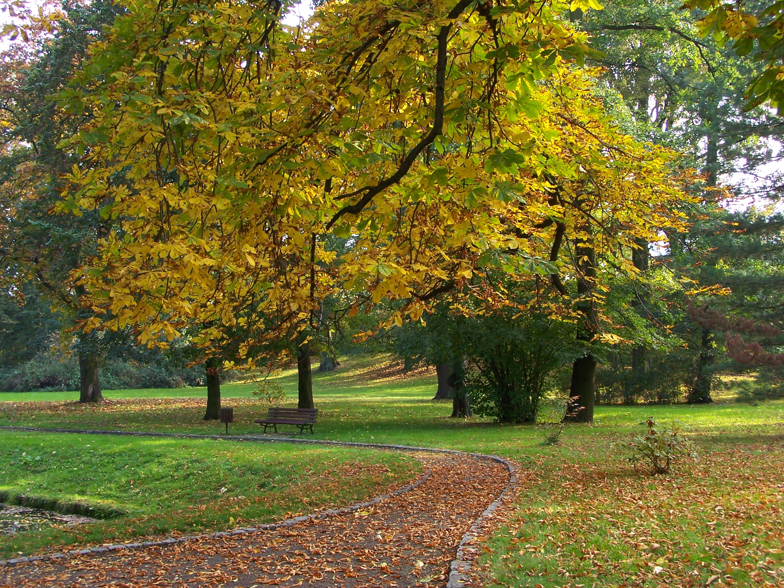 Park in Pławniowice (Poland).